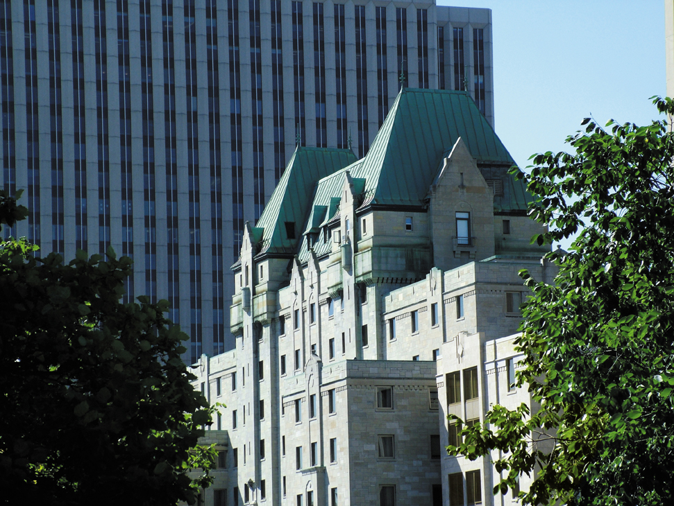 source: from webmaster of the hotel, provided specifically for this site.